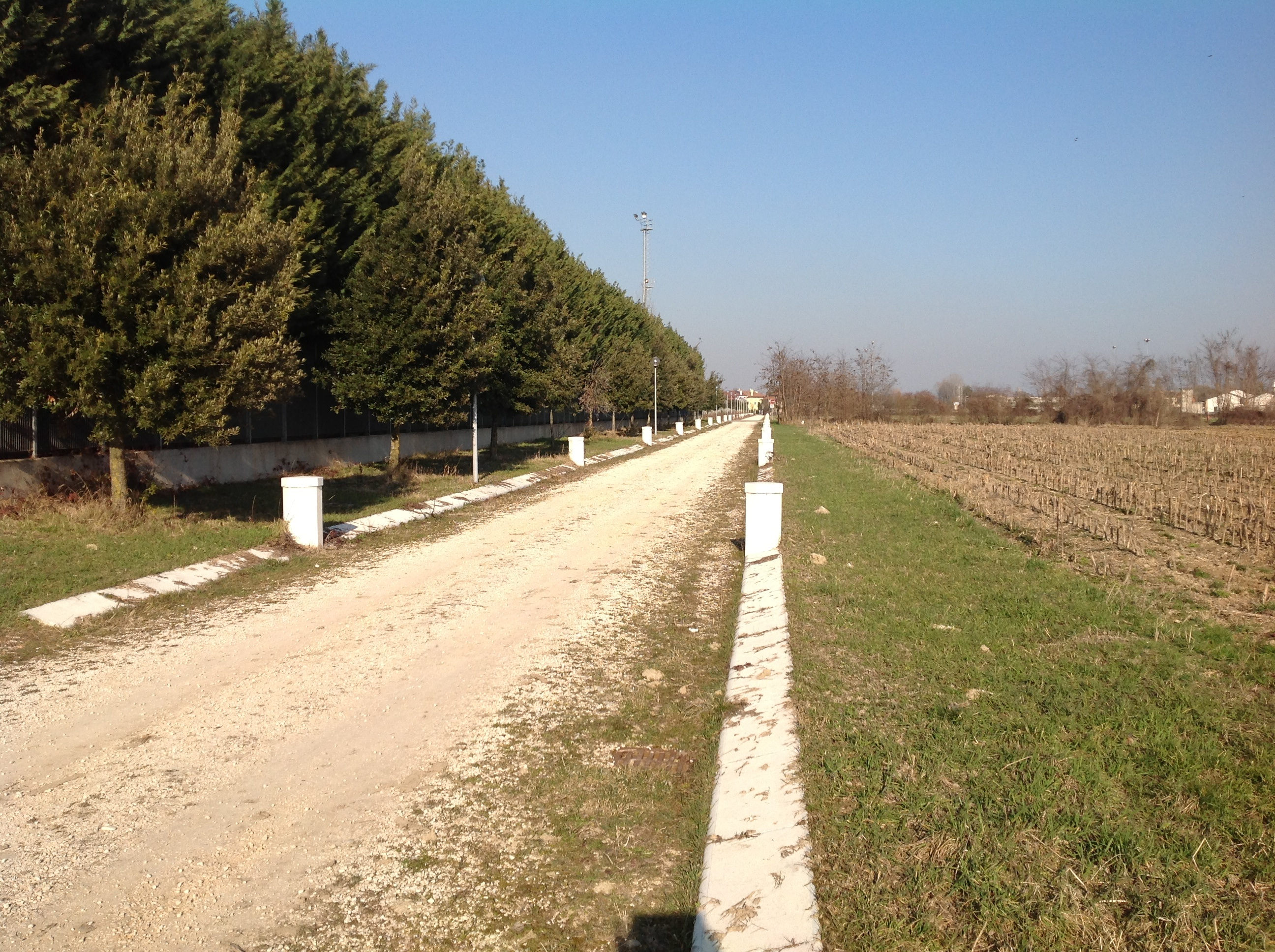 Via annia San stino